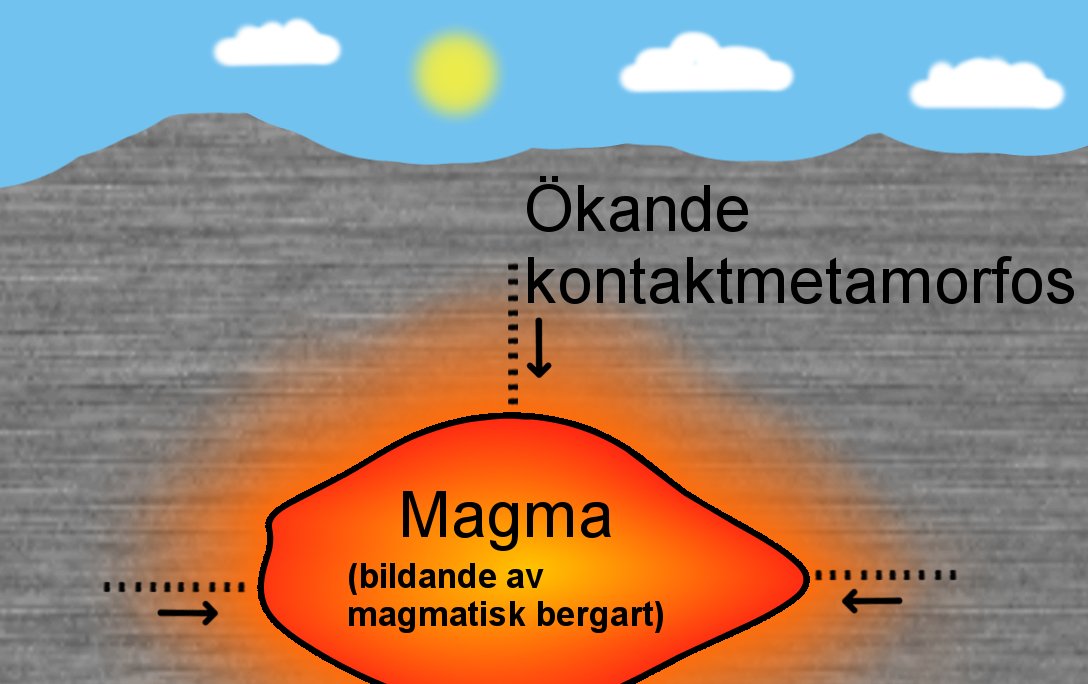 This JPG graphic was created with GIMP. Rock contact metamorphism , bergart kontaktmetamorfos svensk stor text - Information for this image can be found in the book: Jorden - Illustrerat uppslagsverk/sid:80 /Förlag: Globe förlaget,2005,/ ISBN 91-7166-020-8 /Orginal title: Earth (ISBN 1-4053-0018-3)(2003 Doring Kindersley)